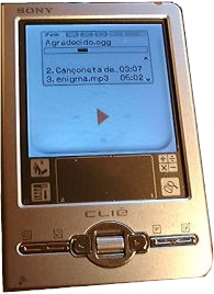 The Sony Clie PEG-TJ37